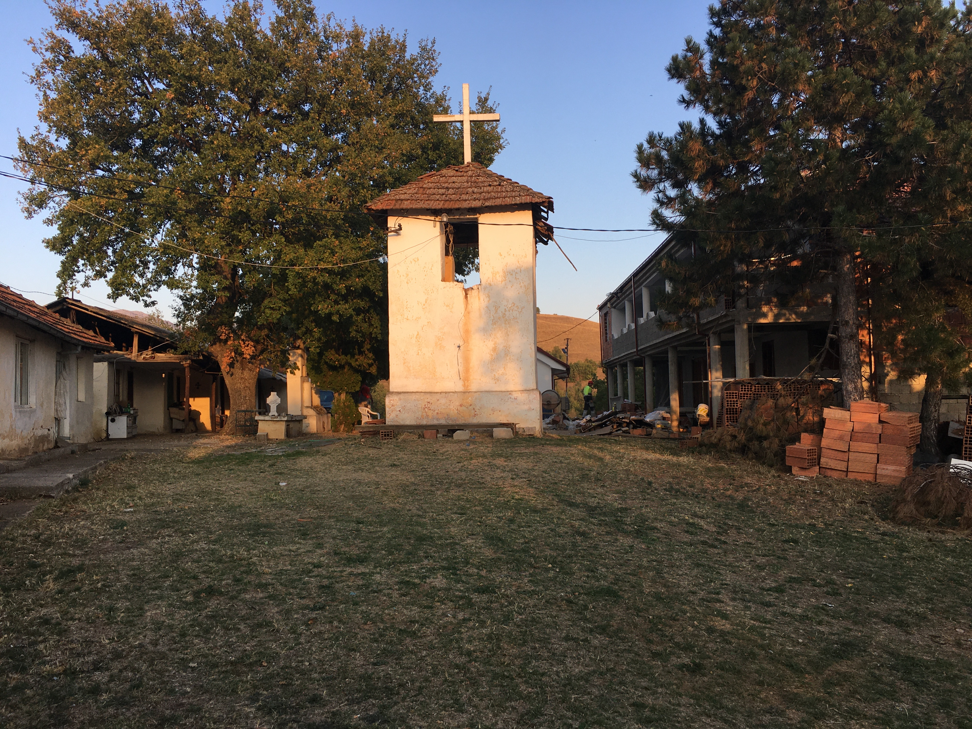 Brailovo Monastery's yard